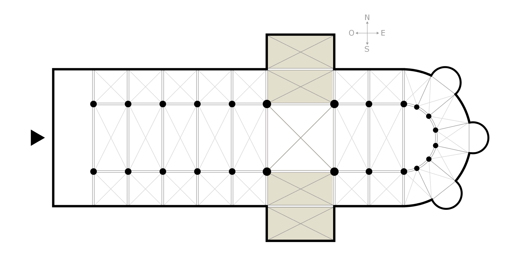 Schematical illustration of a plan view of a cathedral, colored area: transept arms